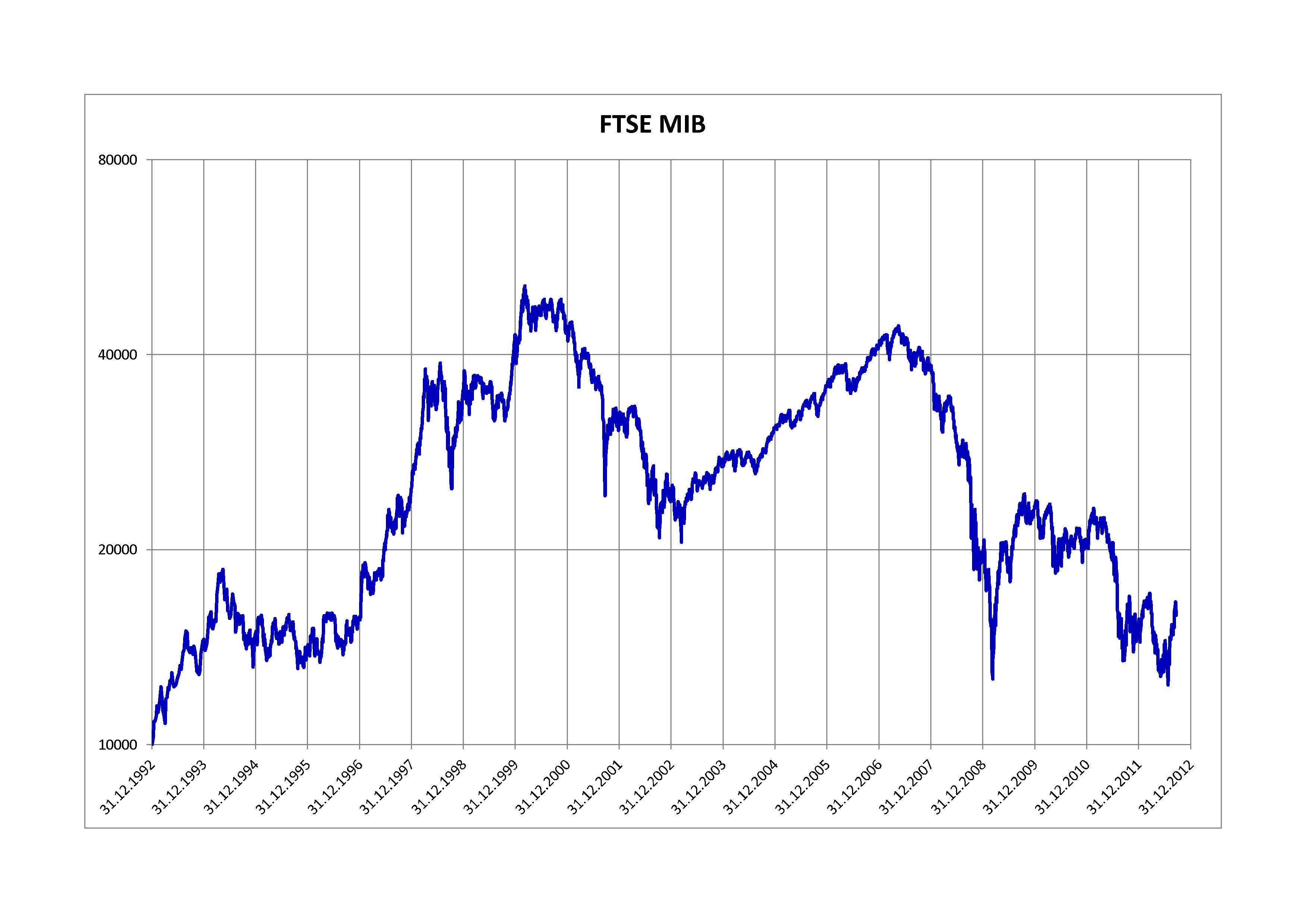 FTSE MIB from December 1992 to September 2012 (daily closings)